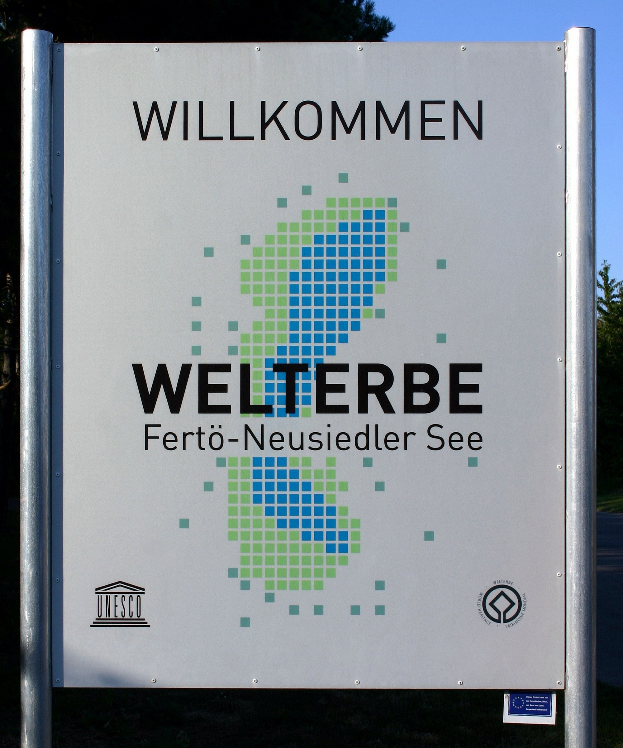 Mörbisch am See - Shield UNESCO World Heritage Fertő-Neusiedlersee